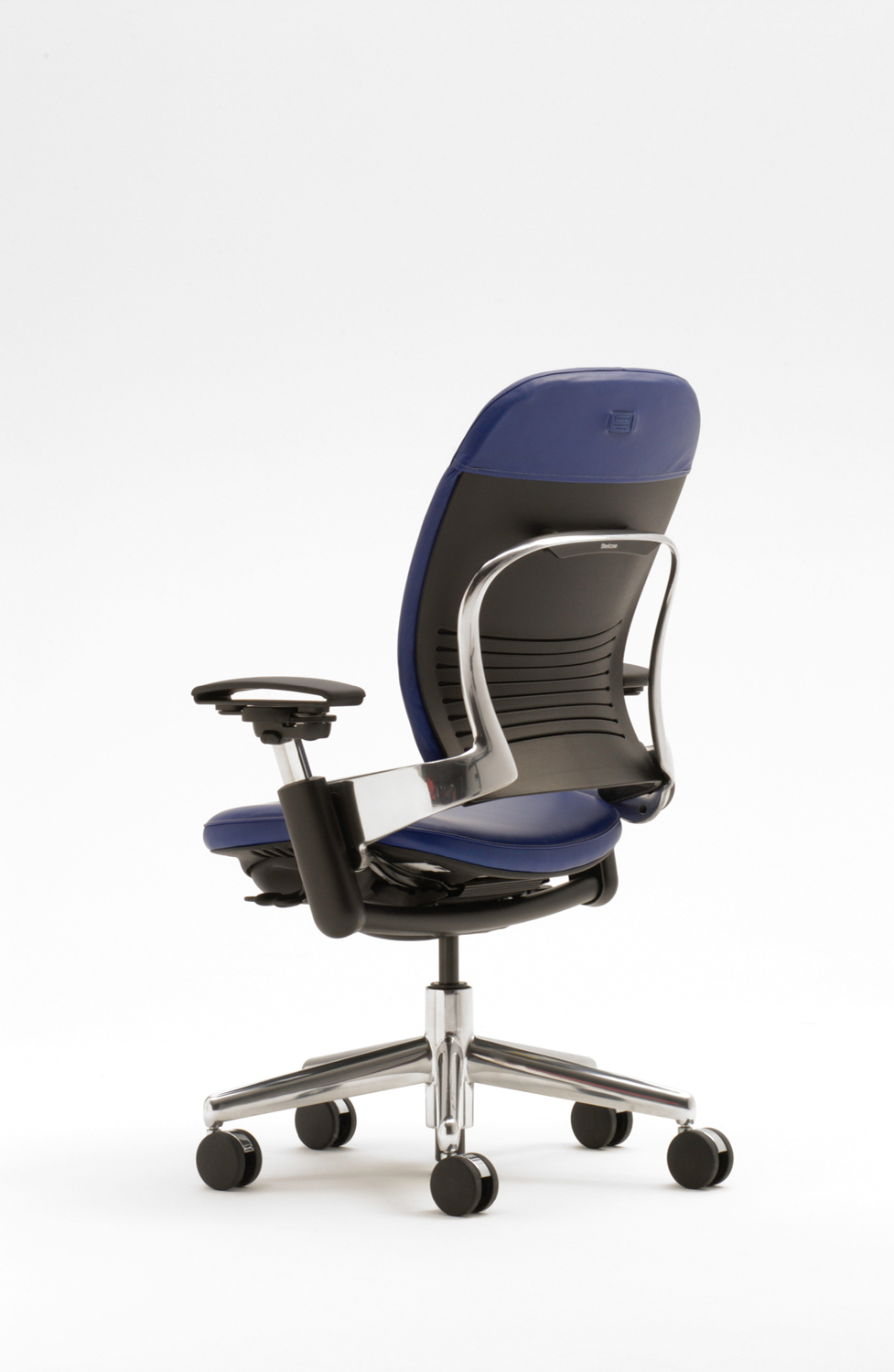 1999 photo of Steelcase's 462 Leap chair. Photo shows a Leap with high back, aluminum backframe, purple upholstery, and "see through" arms.